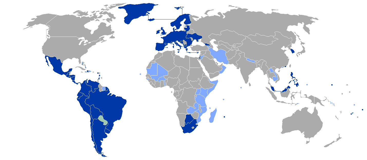 Visa requirements for Paraguayan citizens